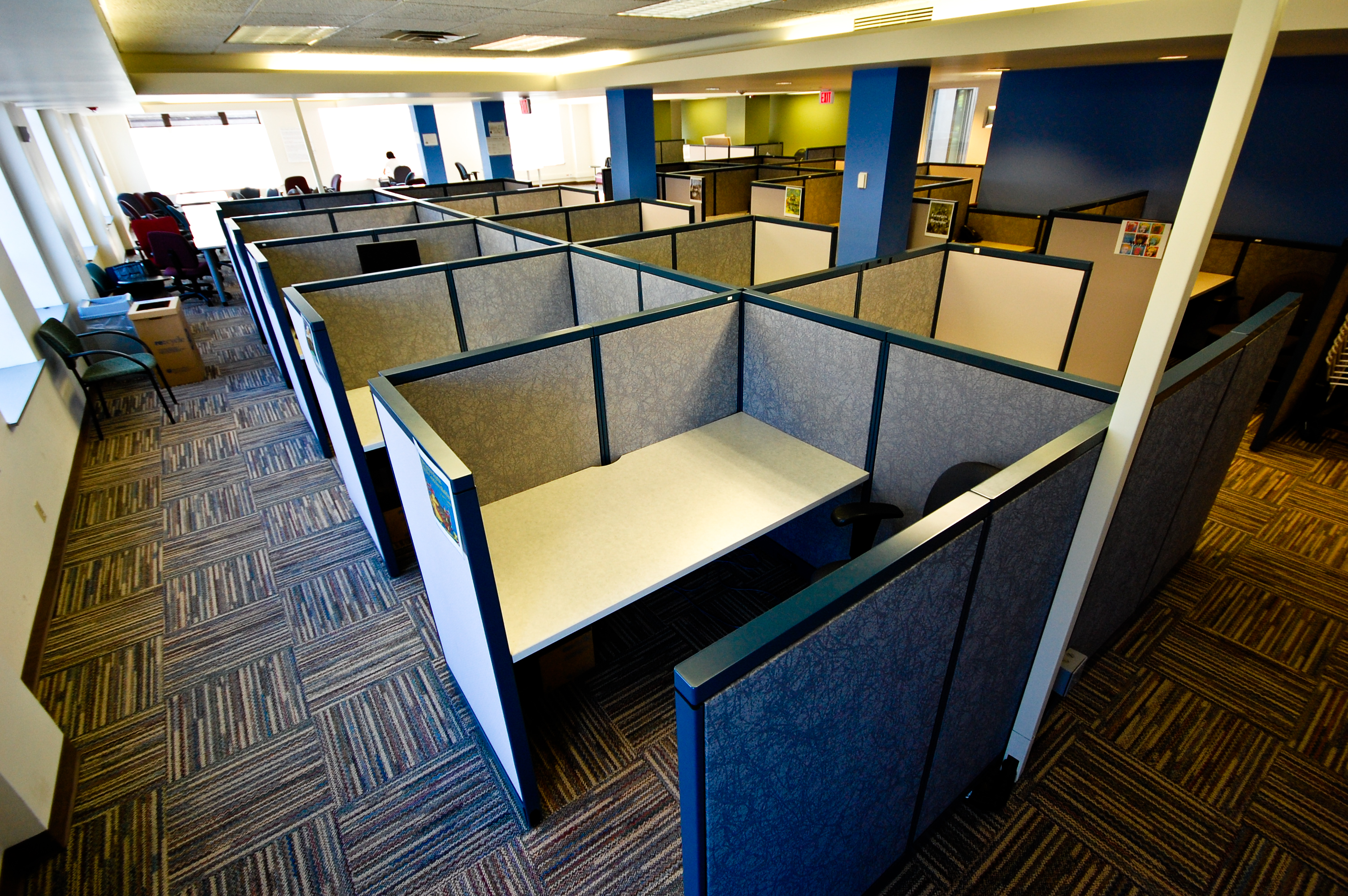 Cubicles in a now-defunct co-working space in Portland, Oregon.